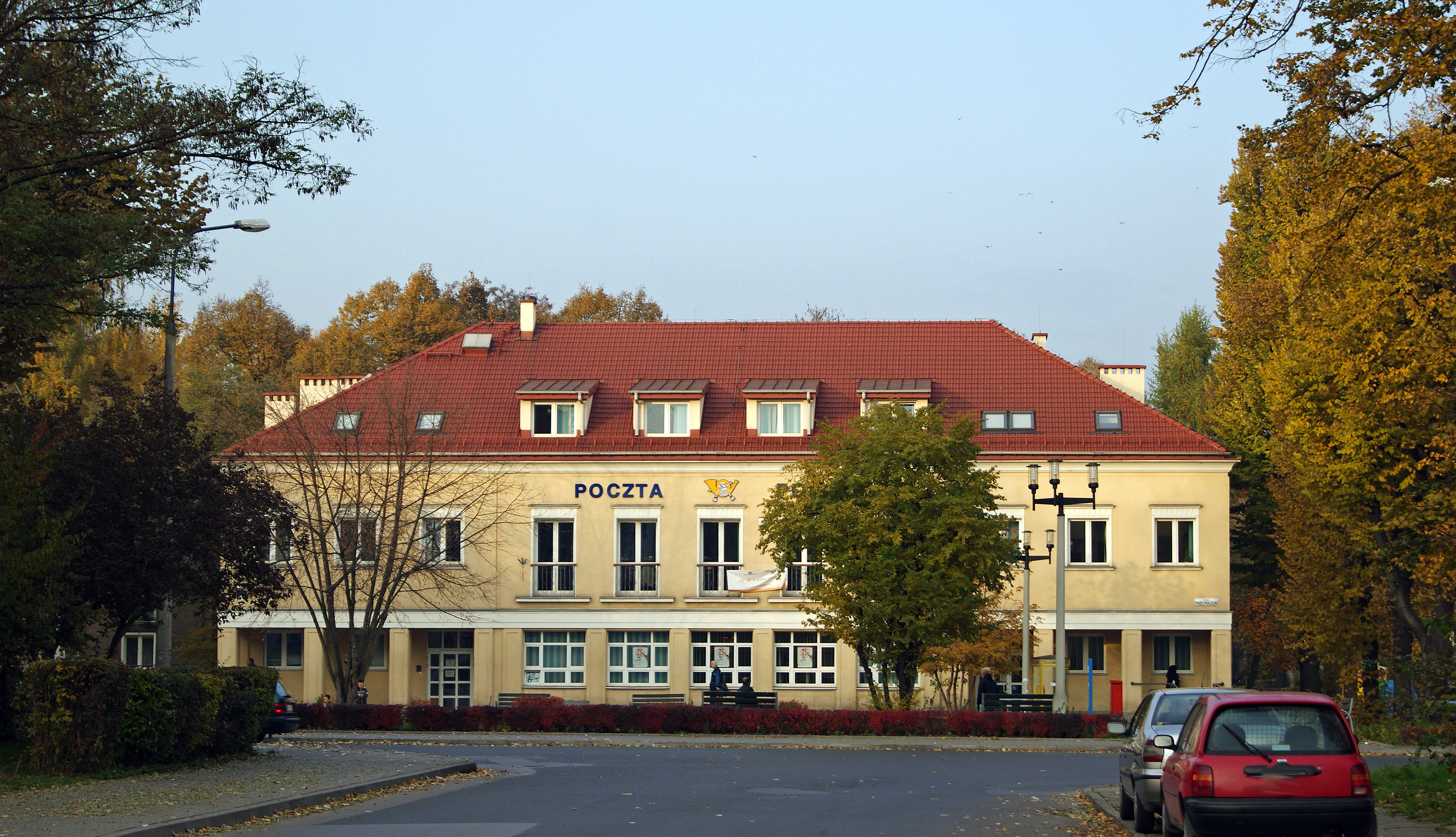 Post Office Kraków 28, 28 Osiedle (Estate) Willowe, Nowa Huta, Krakow, Poland